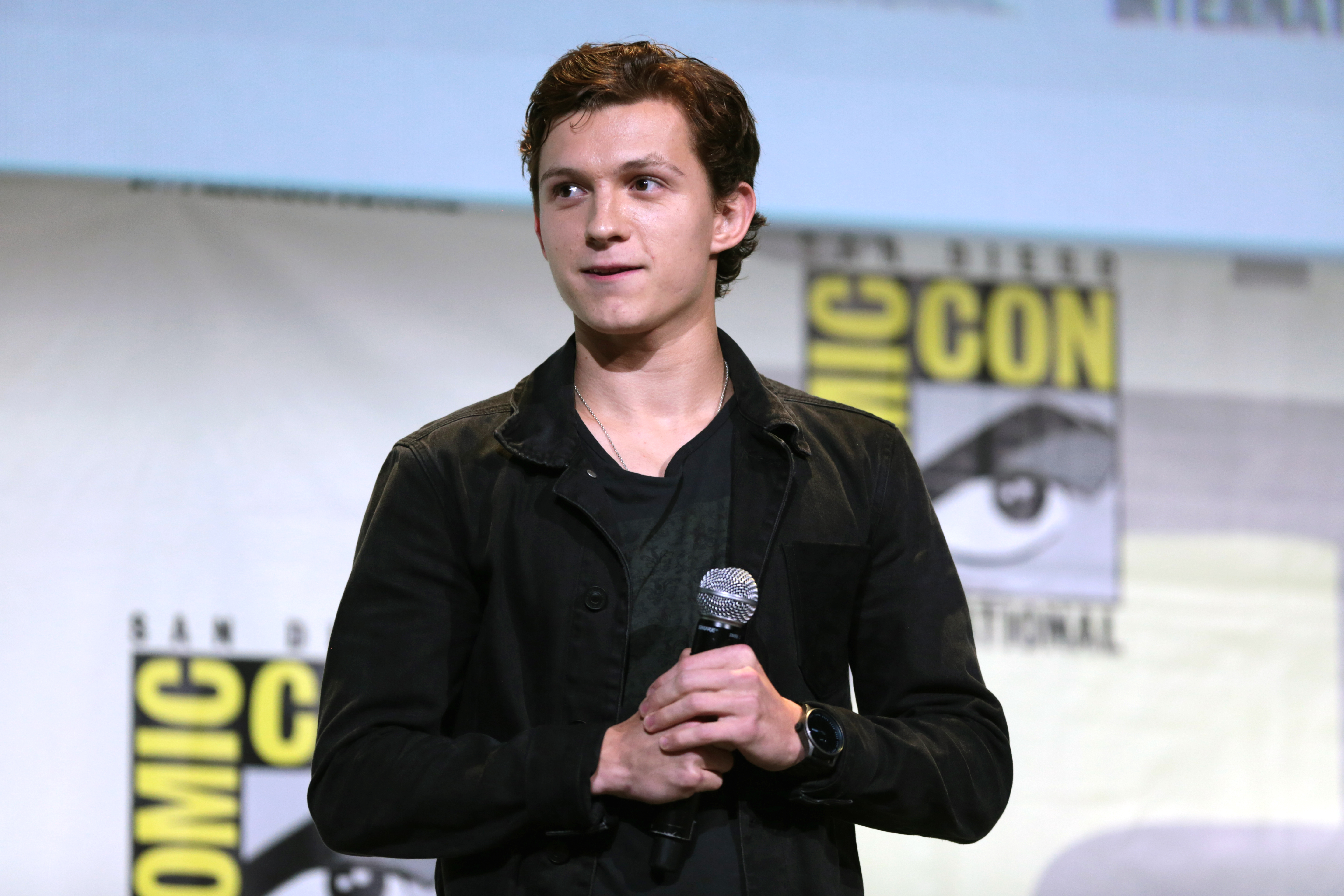 Tom Holland speaking at the 2016 San Diego Comic Con International, for "Spider-Man: Homecoming", at the San Diego Convention Center in San Diego, California.